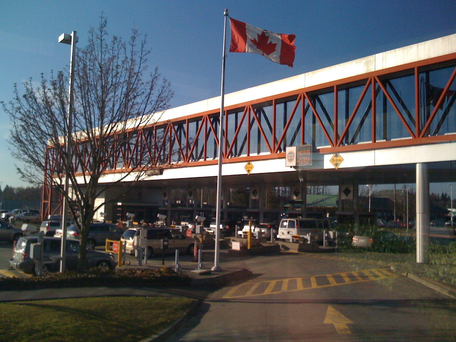 The Canadian Border Services Agency at the Pacific Highway crossing from Blaine, Washington to Surrey, British Columbia.